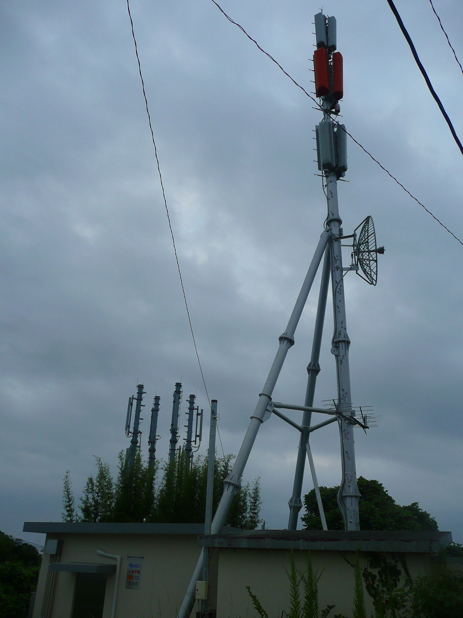 Shibushi Digital TV Repeater (MBC,KTS,KKB,KYT - Shibushi City, Kagoshima, Japan)